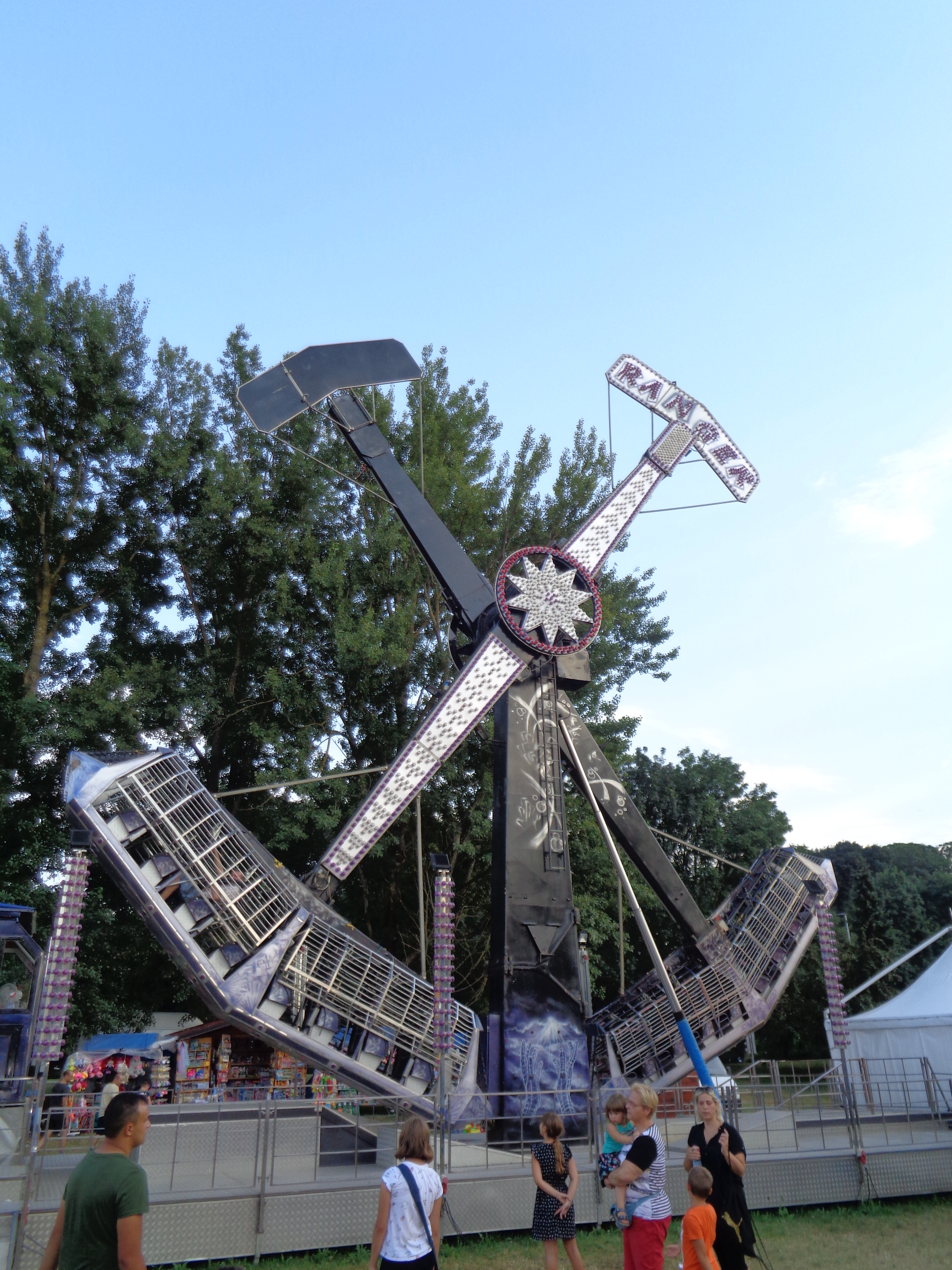 Porcijunkulovo, Catholic feast of Our Lady of the Angels and local festival in Čakovec, Croatia (2018) - kamikase ride